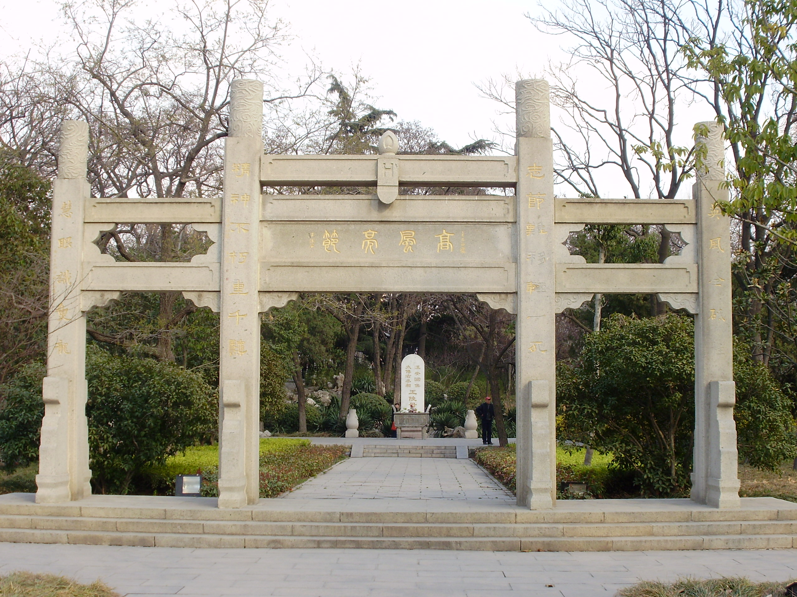 Mother Wang's tomb in Yunlong Park, Xuzhou, China